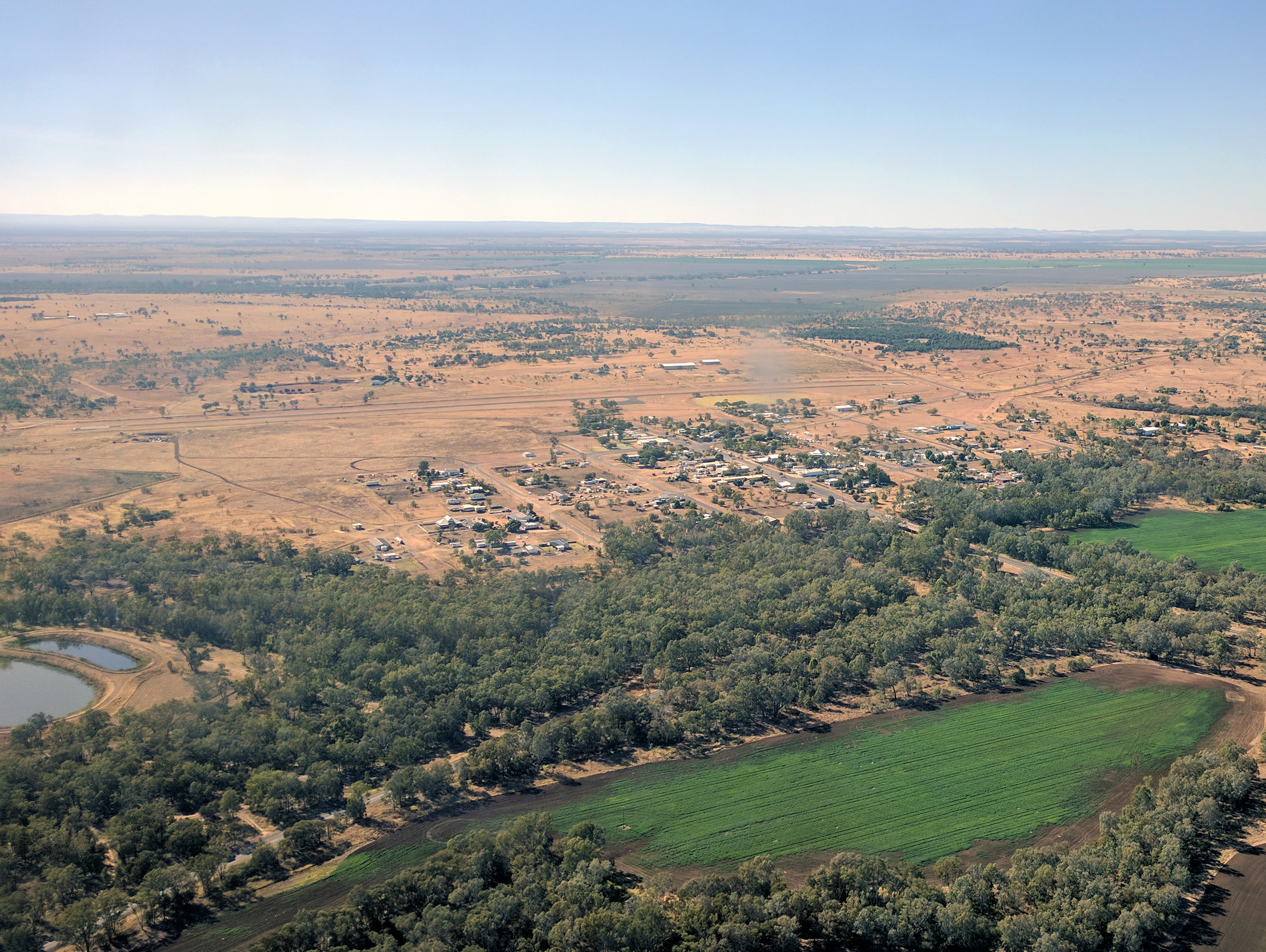 Aerial photography of outback Queensland towns